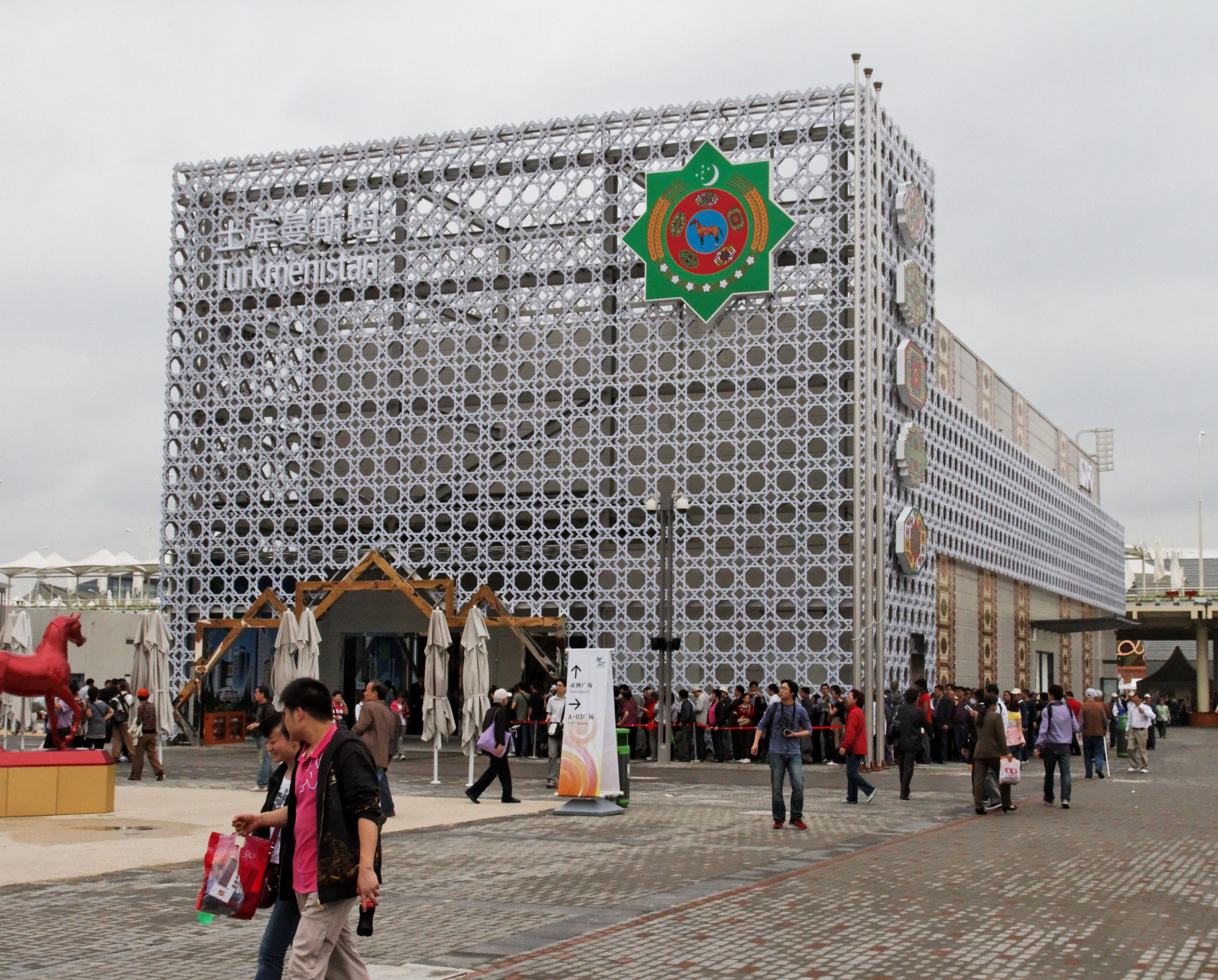 Turkmenistan Pavilion of Expo 2010